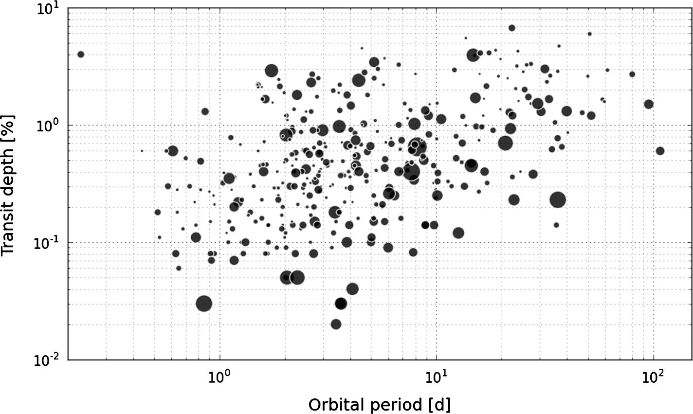 The period and depth of CoRoT planetary candidates (courtesy A. Santerne). The size of the symbols indicates the apparent luminosity of the parent star (small meaning faint).